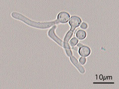 microscopic image of Candida albicans ATCC 10231. 'Germ tube' formation by 3 hours incubation in calf serum at 37C. magnification:600.